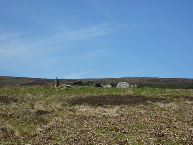 Balnacrae chambered cairn